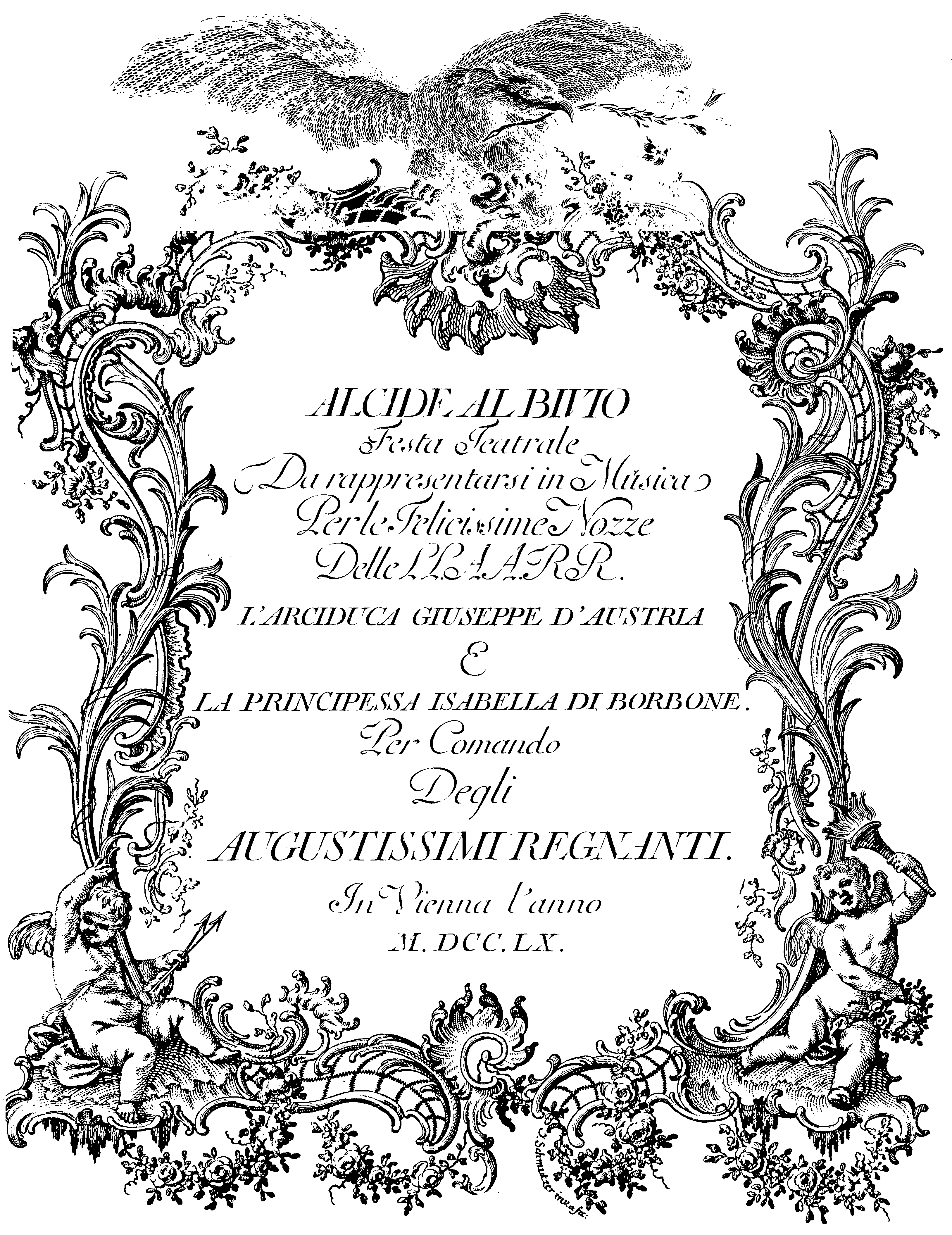 Johann Adolph Hasse - Alcide al bivio - titlepage of the libretto - Vienna 1760